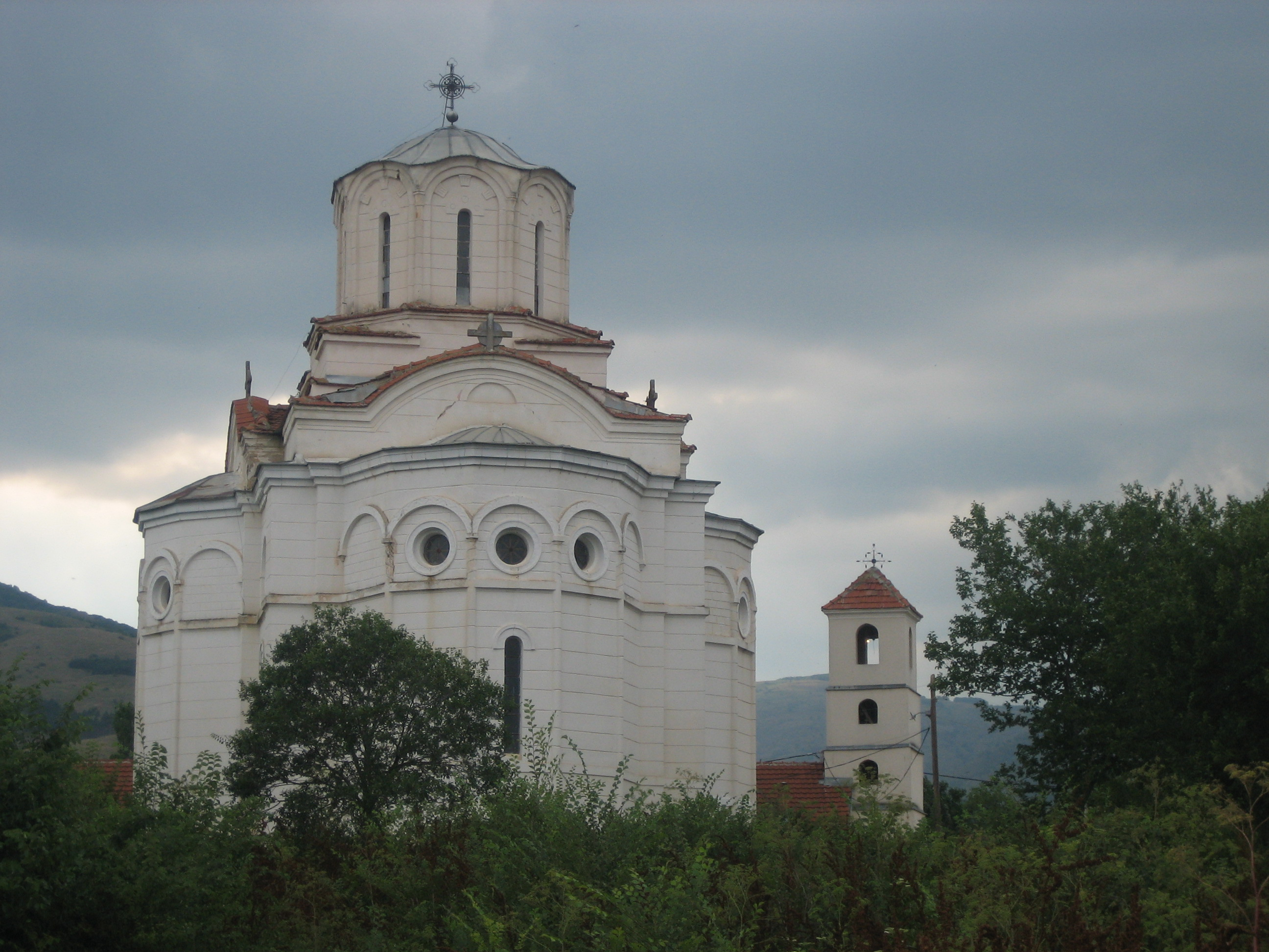 St. Theodore of Amasea Church in Dolno Srpci, Macedonia